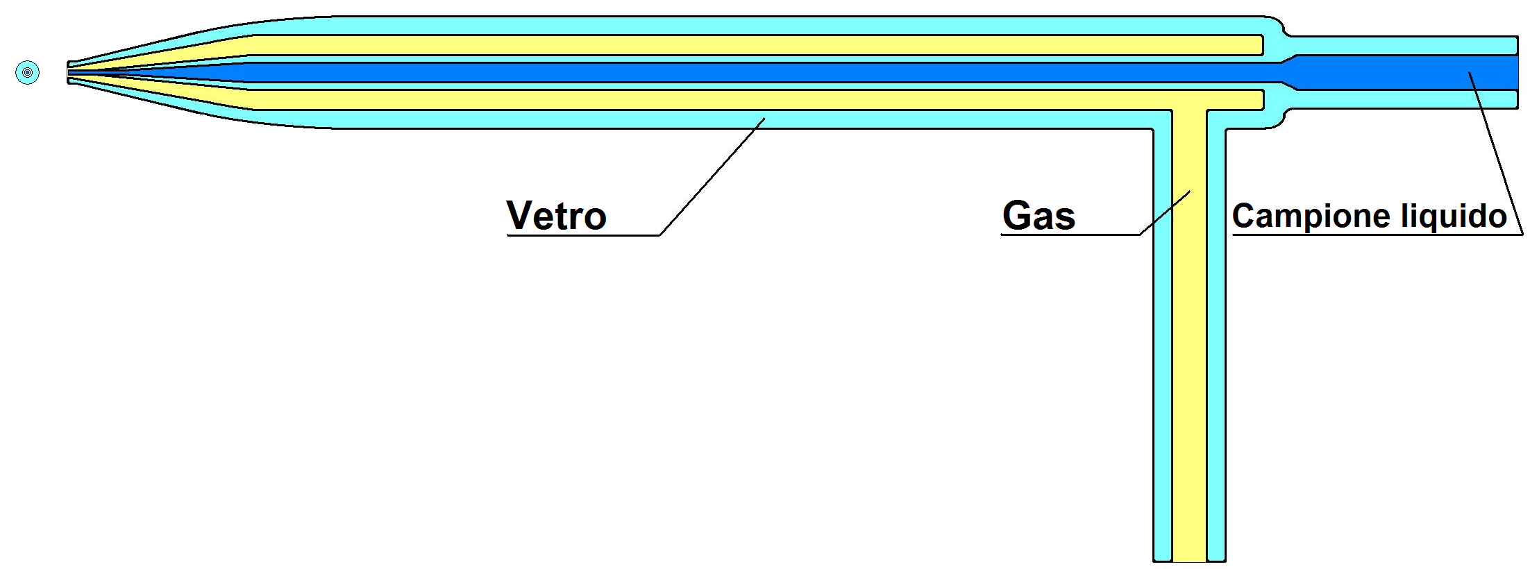 Italian PNG version of File:Concentrische verstuiver.JPG.